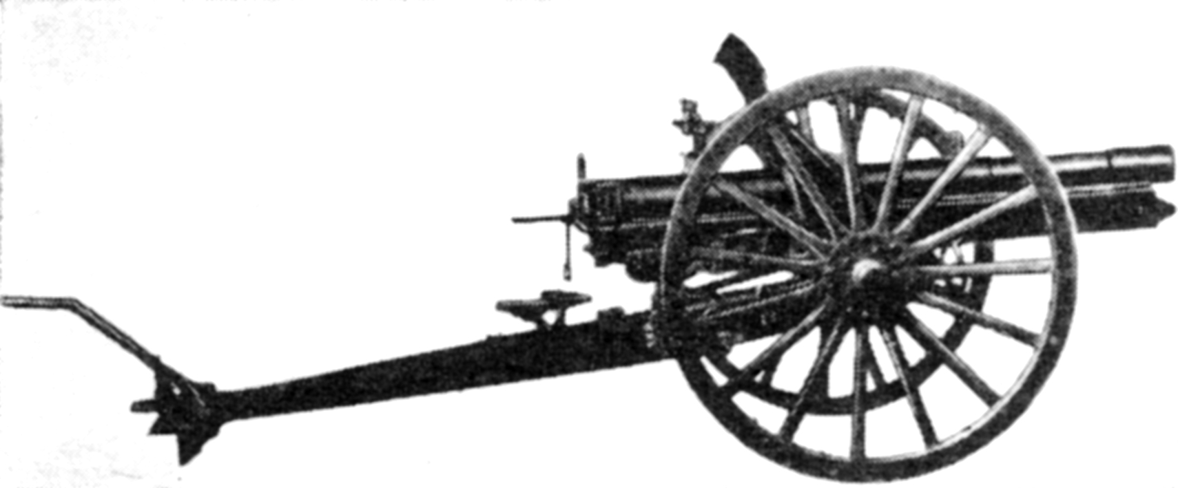 A Japanese Type 41 75 mm Cavalry gun, seen from the side. Effectively obsolete by the Second World War, but still used in limited numbers